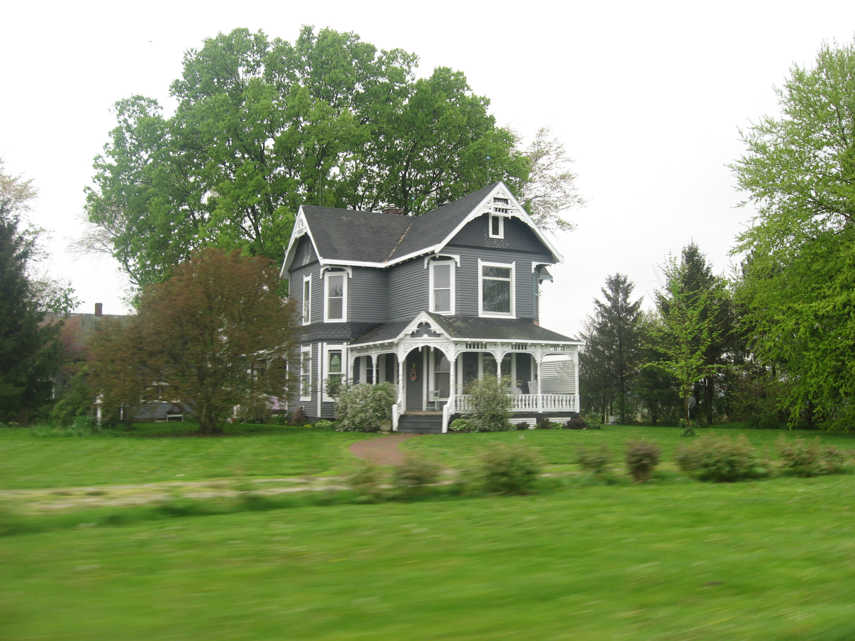 Front of the Clinton F. Hesler Farmhouse, located on E450S between S200N and S300N southeast of Veedersburg in Millcreek Township, Fountain County, Indiana, United States. Built in 1896, it is listed on the National Register of Historic Places along with the rest of the farm complex.